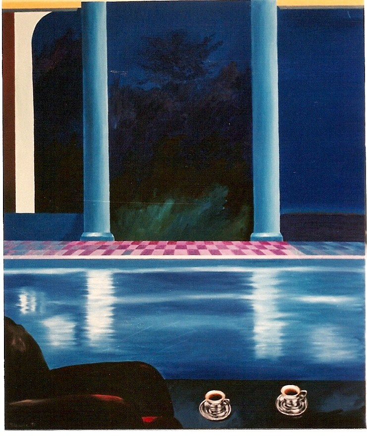 Oplontis n°3-Painting by Ksenia Milicevic